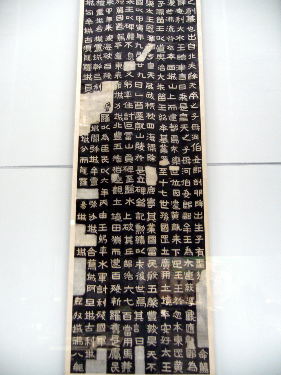 Photograph of rubbed copy of Gwanggaeto Stele taken at Kyushu National Museum